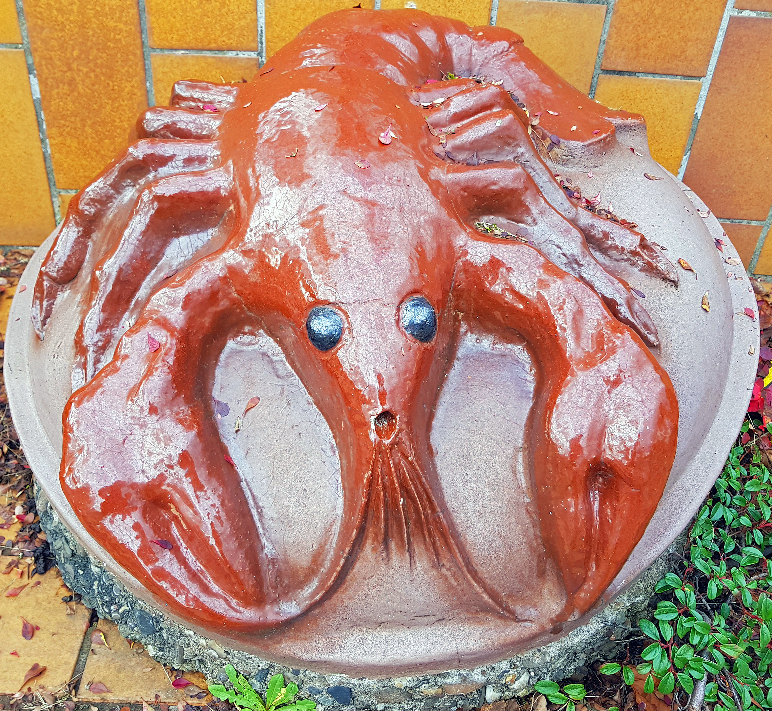 Der Manderbacher Krebs am Altwieser-Weiher